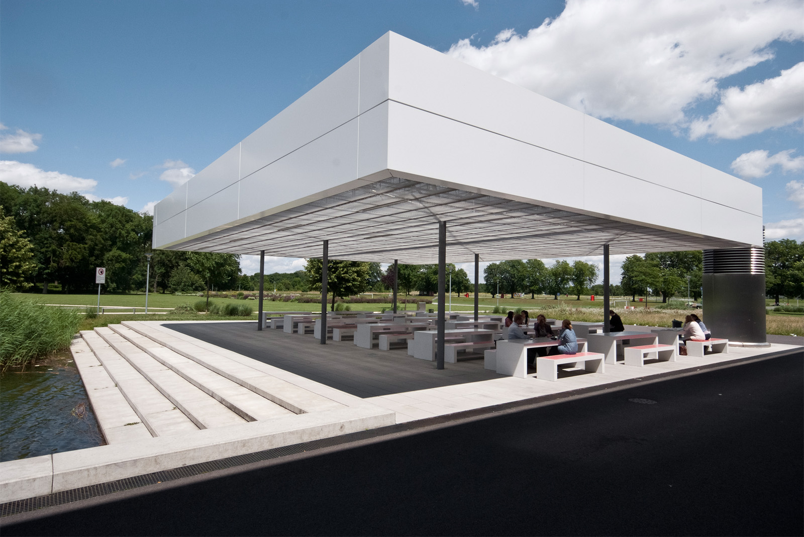 Neu-Ulm University of Applied Sciences (HNU): Roofed lake terrace of the cafeteria